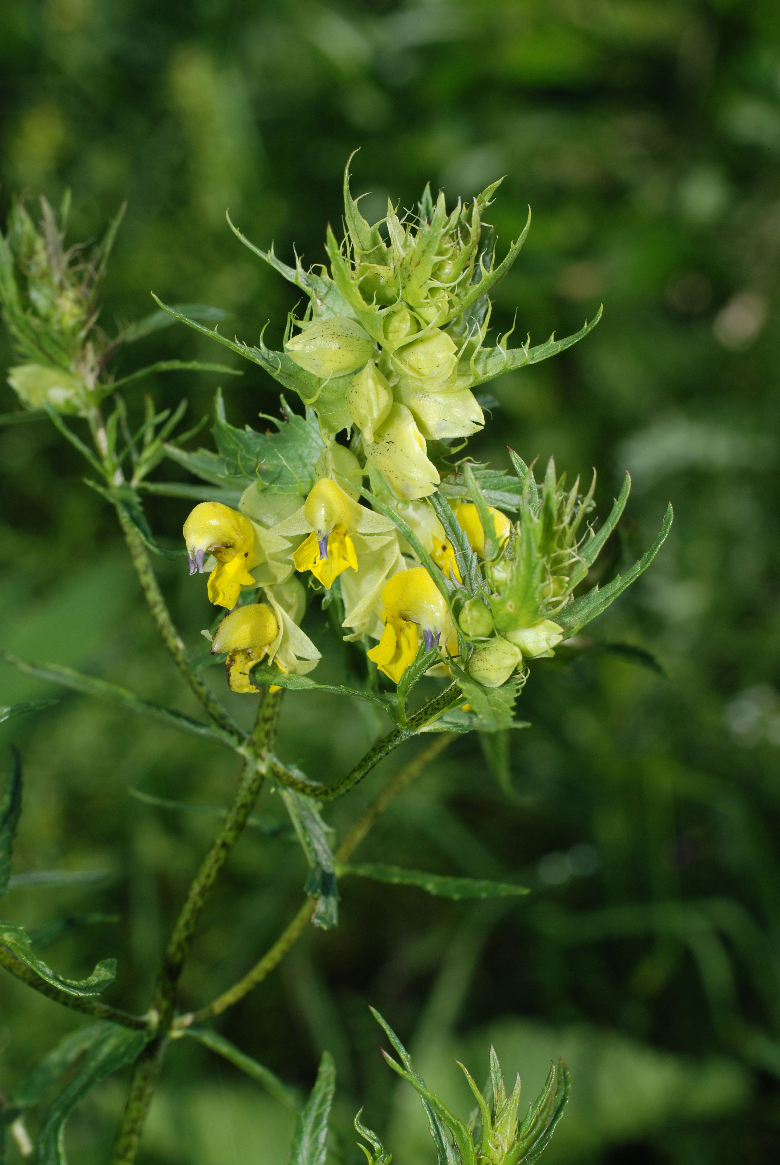 Rhinanthus glacialis, Hinterstoder ~1.200, Upper Austria, Austria